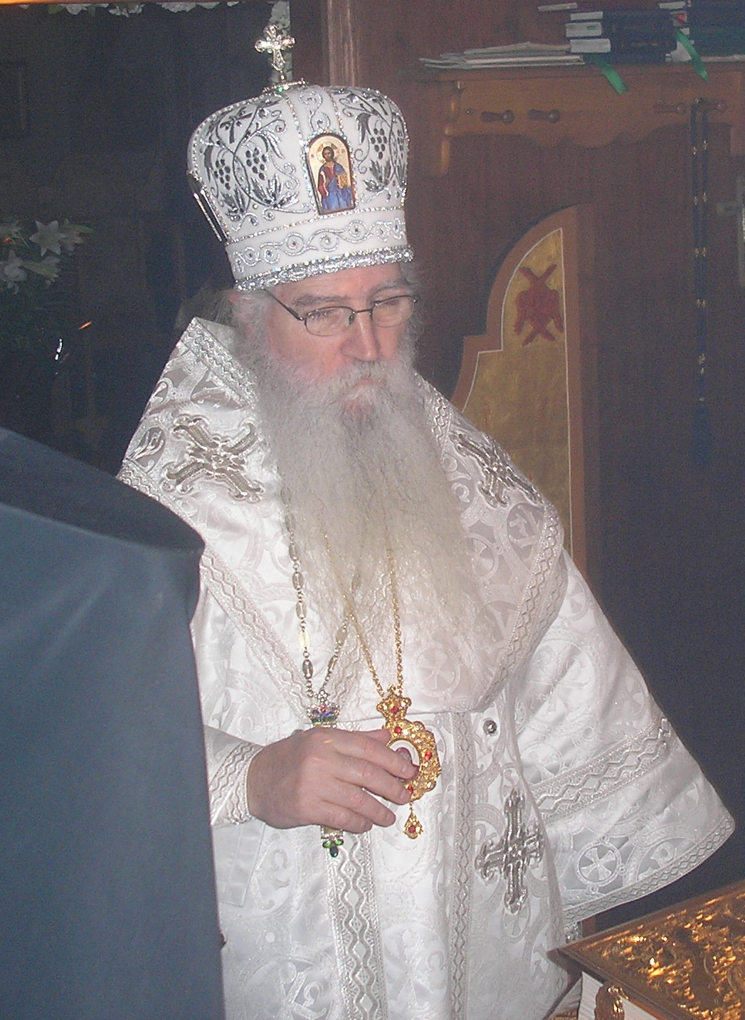 Bishop George (Schaefer) of ROCOR at the altar during matins on Pascha, 2011 at Holy Cross Monastery in Wayne, WV